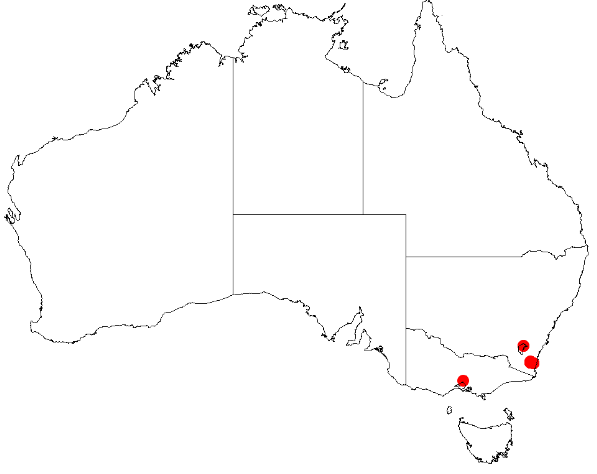 Acacia blayana Occurrence data from Australasian Virtual Herbarium downloaded from on 8 December 2018